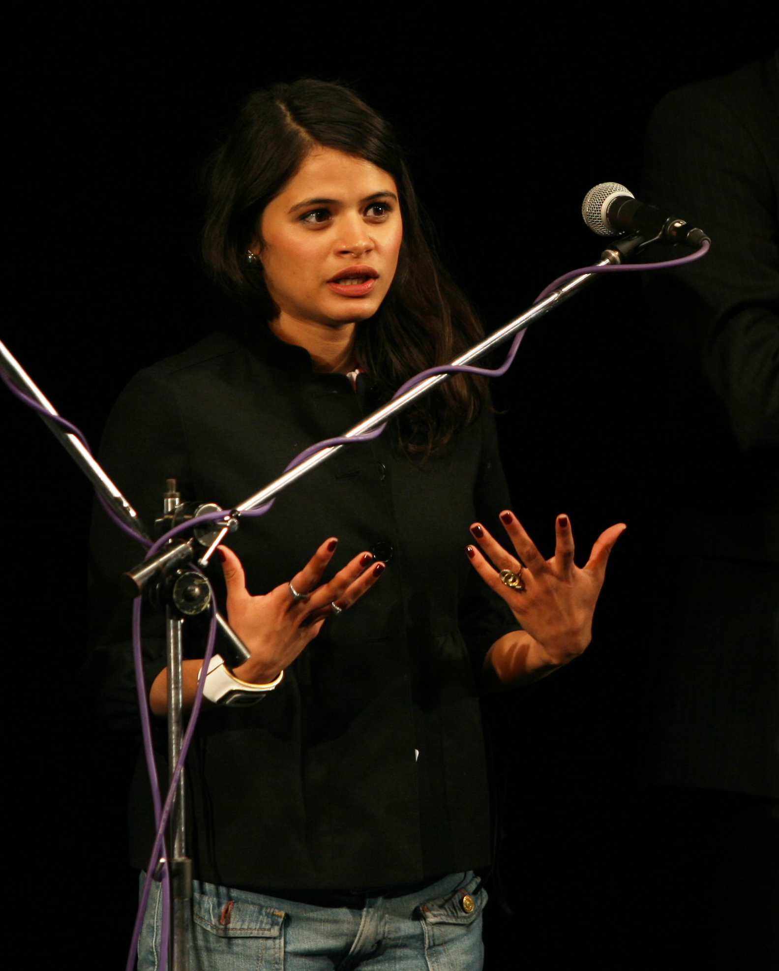 Melonie Diaz introduces film Be Kind Rewind at 43rd Karlovy Vary International Film Festival